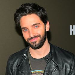 Paul W. Downs at the "2 Dope Queens" premiere in LA